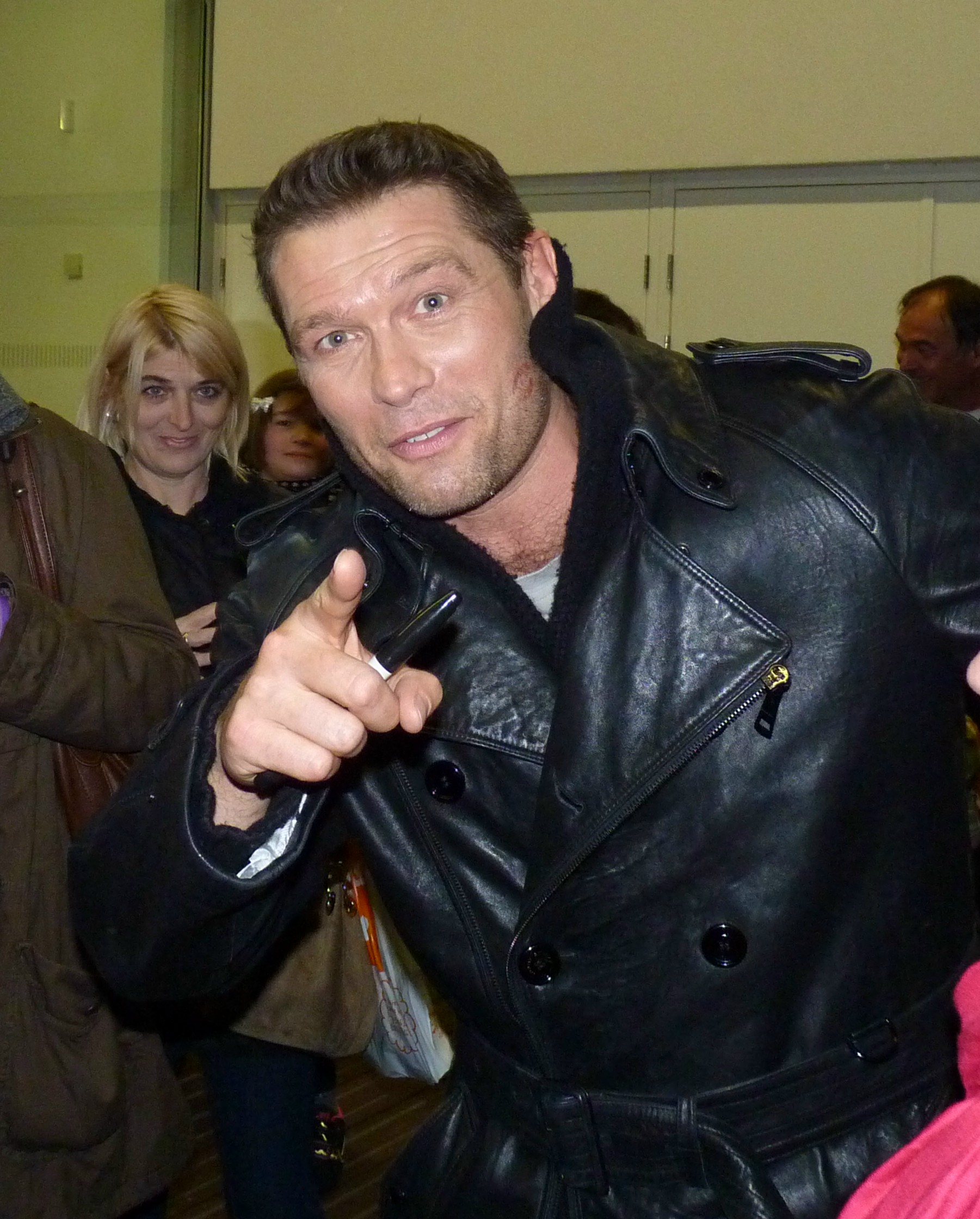 John Partridge, from the BBC soap opera EastEnders.